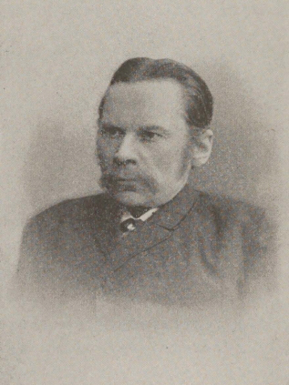 Photo of Andreas Asharin